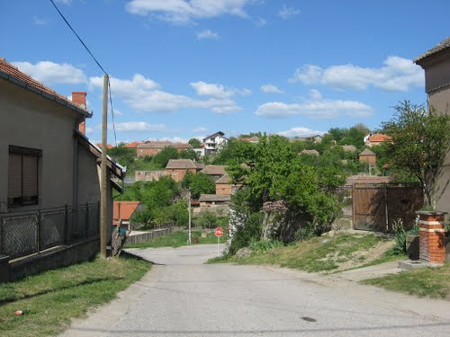 Village Ram